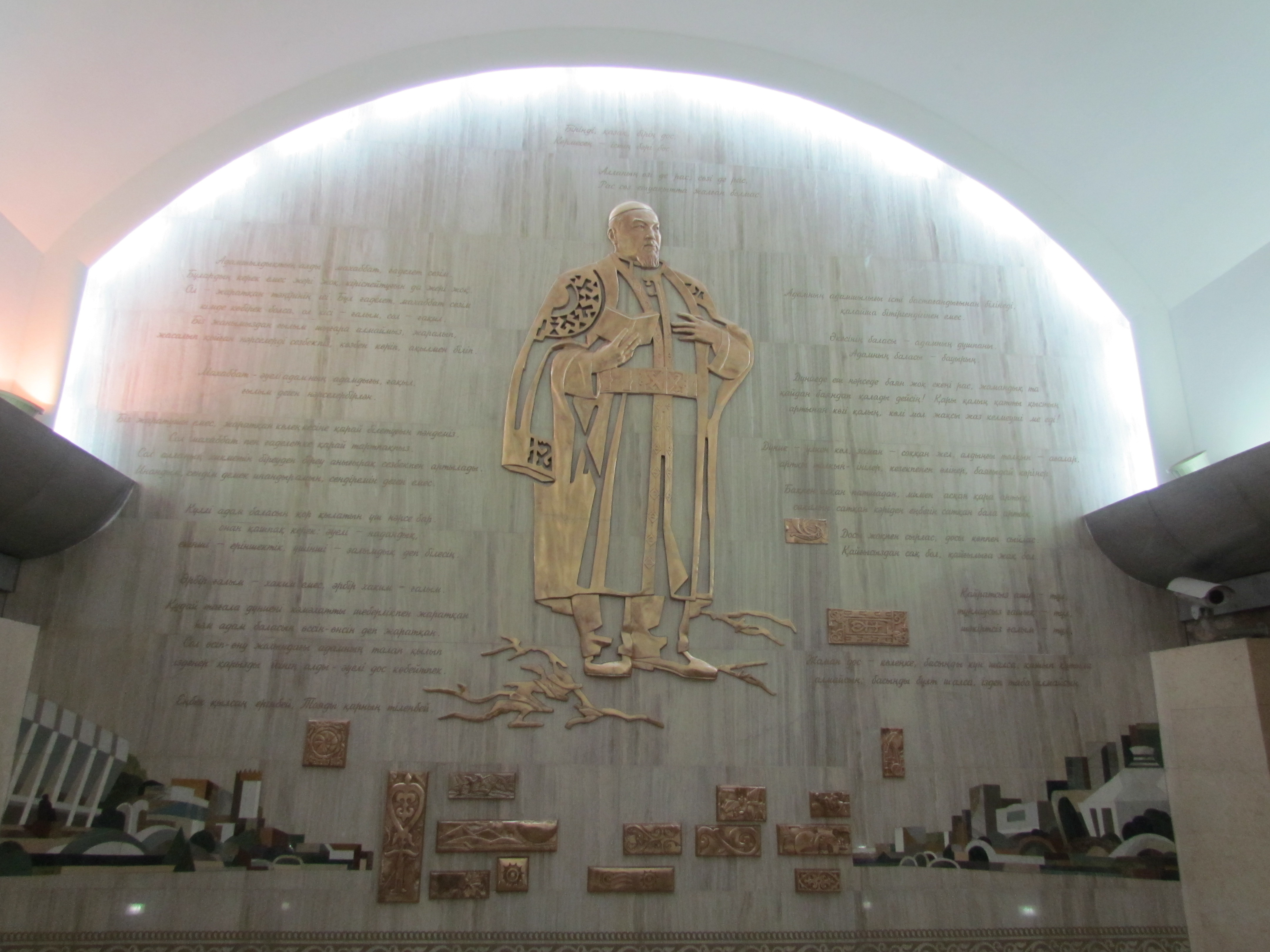 Abay Metro Stantion in Almaty